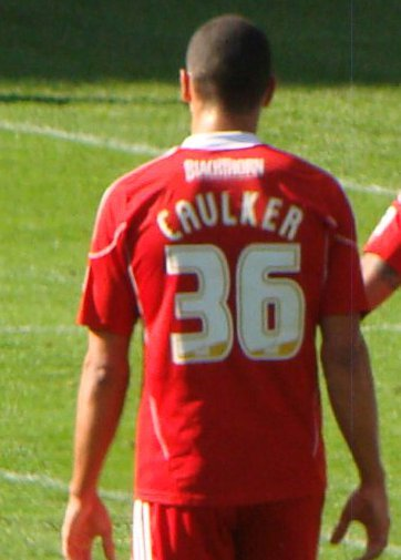 16/10/10 Cardiff City V Bristol City, Championship, Cardiff City Stadium, Cardiff, Wales